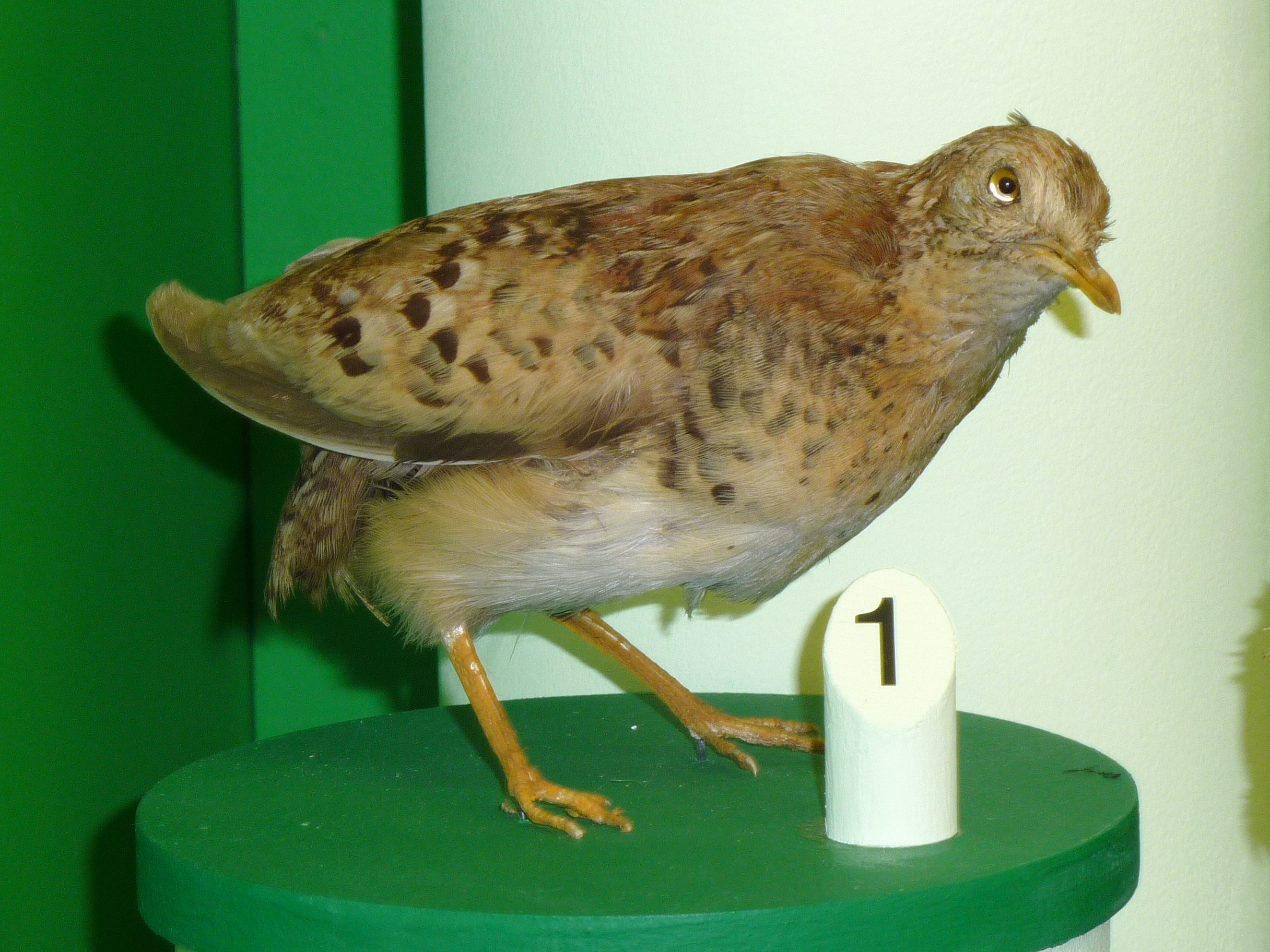 Yellow-legged Buttonquail (Turnix tanki)